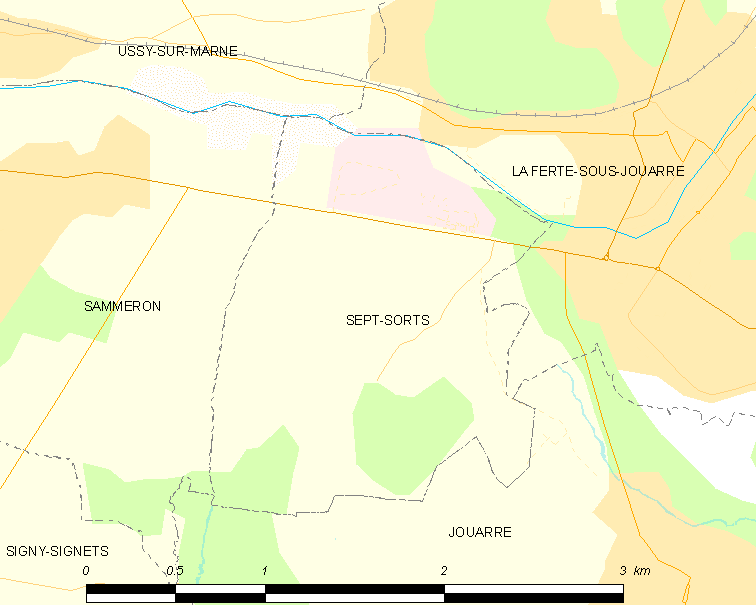 Map of French municipality Sept-Sorts